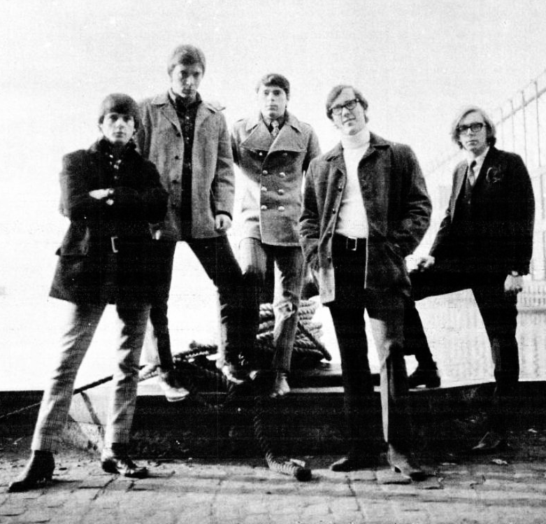 Trade ad for The Critters's single "Don't Let The Rain Fail Down On Me".To better adapt it to his respective Wikipedia article, the ad was cropped and cleaned in a graphics editing program. The original can be viewed at the source below.